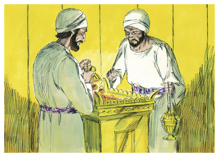 Biblical illustration of Book of Exodus Chapter 1